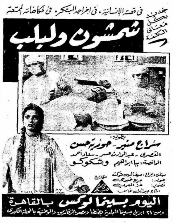 Mahmoud Shokoko Shamshon wa Lebleb Poster (1952)